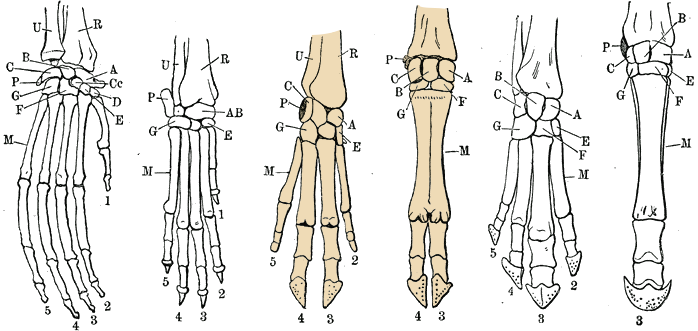 Figure from Meyers Lexicon Conversion 1888 – Skeletons of mammalian hands. Hands of even-toed ungulates are highlighted. From left to right: Orangutan; Dog; Swine; Cattle; Tapir; Horse Abbreviations: R, Radius; U, Ulna; A-G, Cc, P, carpals; A, Scaphoideum; B, lunar; C, "Triquetum"; D, trapezium; E, trapezoids; F, Capitatum; G, Hamatum; P, Pisiform; Cc, central carpal; M, metacarpal; 1-5, thumb and digits two to five.